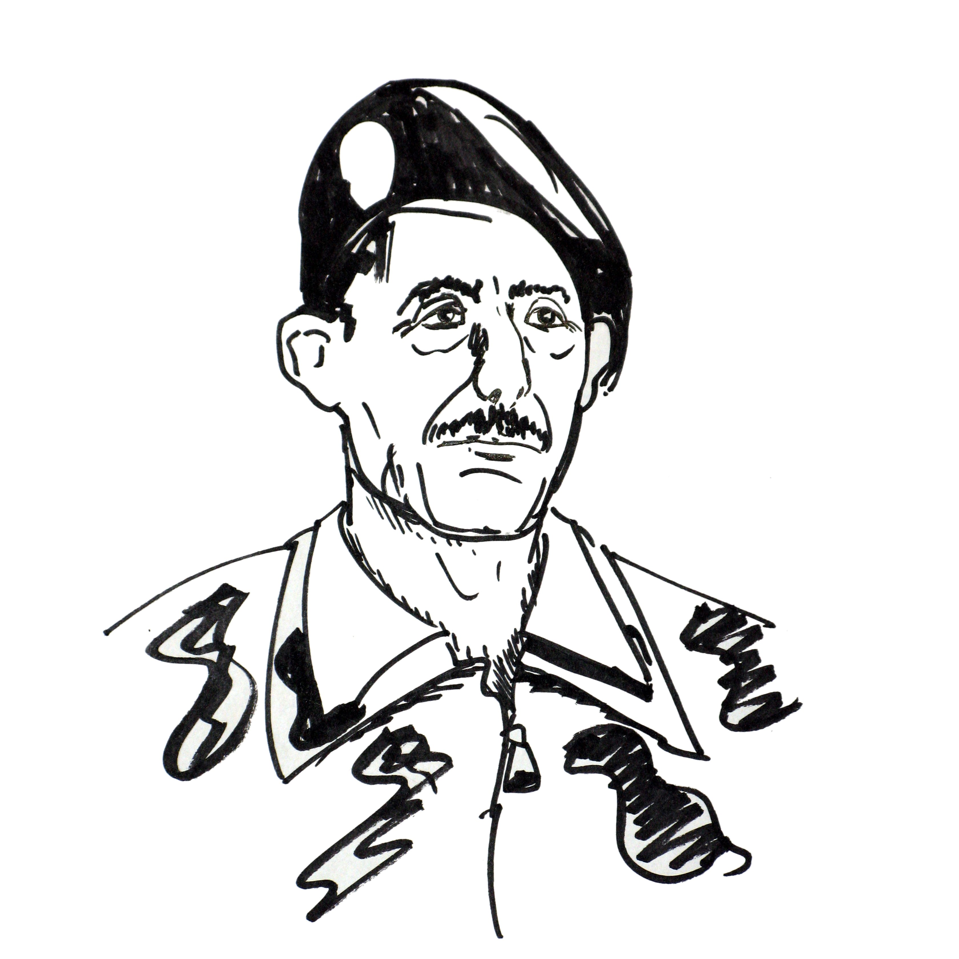 General Jacques Massu